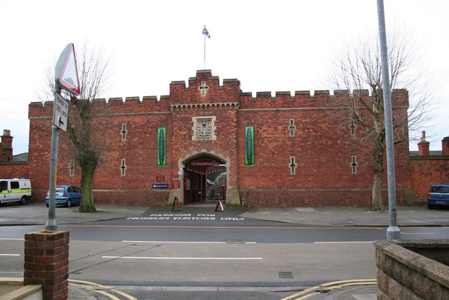 Burton Road Barracks Austere red brick barracks now home to the Museum of Lincolnshire Life